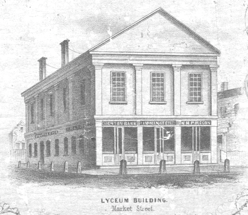 Detail of: Plan of the city of Lynn Mass. from actual surveys Publisher: McIntyre, H. (Henry) Date: 1852 Location: Lynn (Mass.)